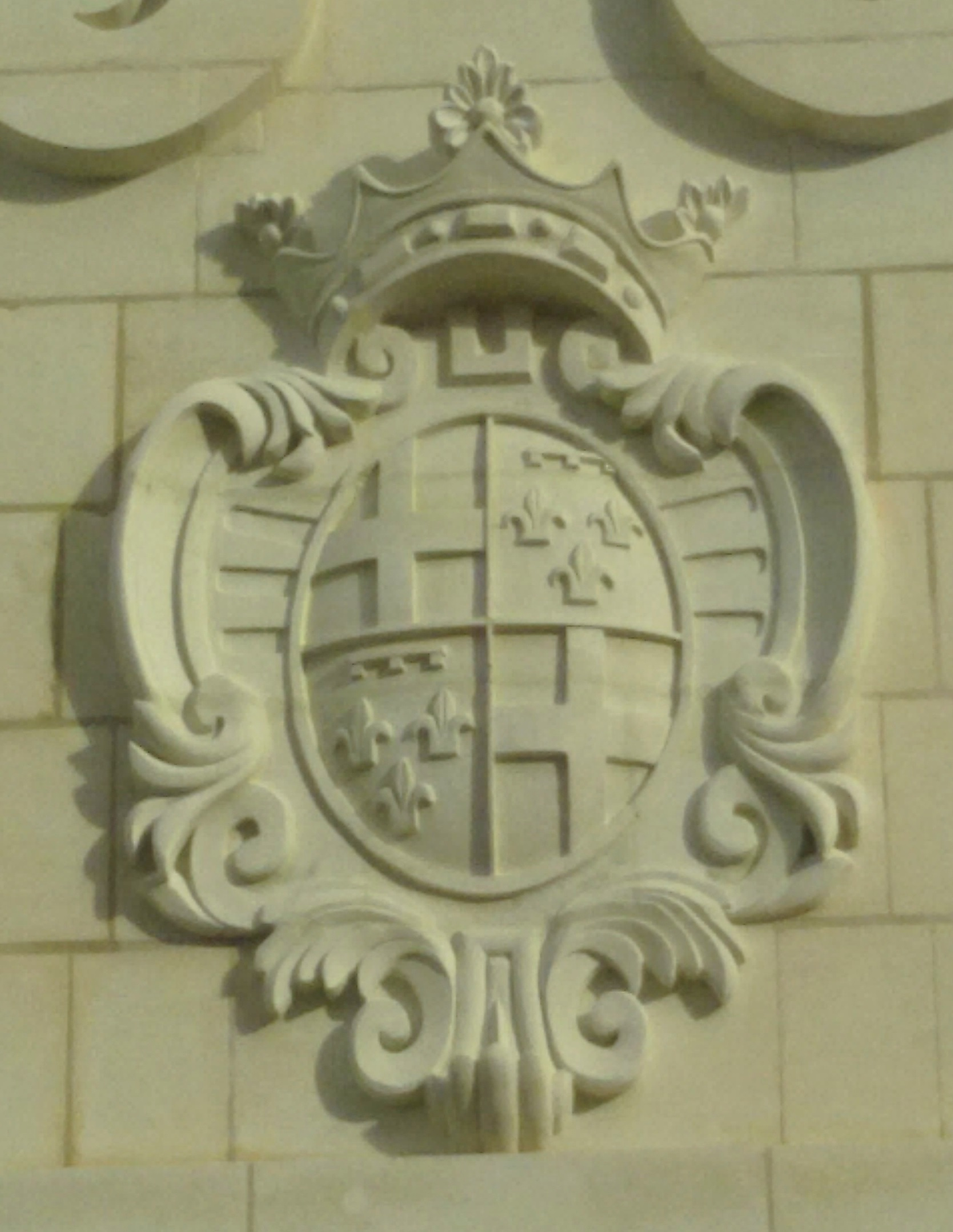 Coat of arms of Alof de Wignacourt on the Wignacourt Arch (aka. Fleur-de-Lys Gate)